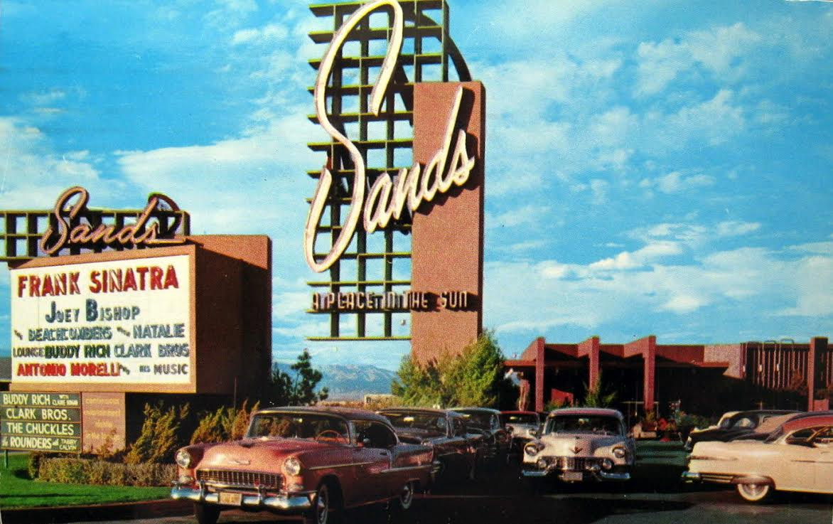 Photo of the Sands Hotel marquee in 1959 featuring Frank Sinatra and Joey Bishop.